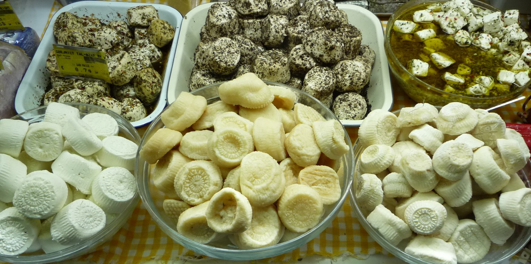 A variety of fresh and cured Sheep's Milk Cheeselets from Malta